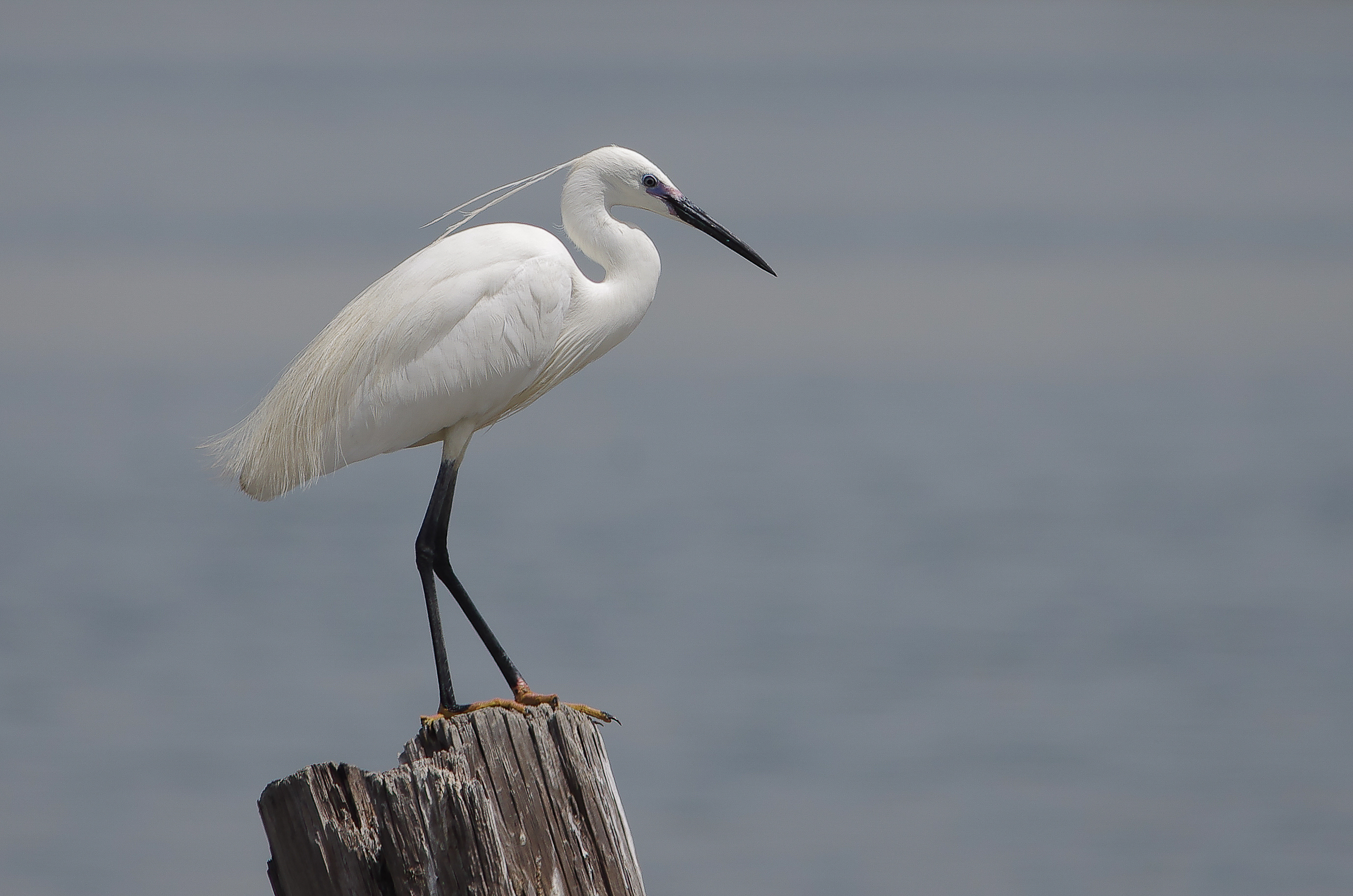 A Little egret on the south side of Lake Tunis